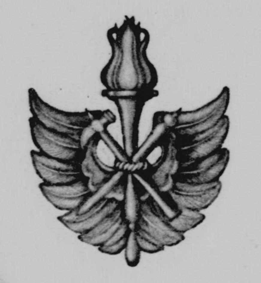 The logo of Tokyo College of Industrial Arts.